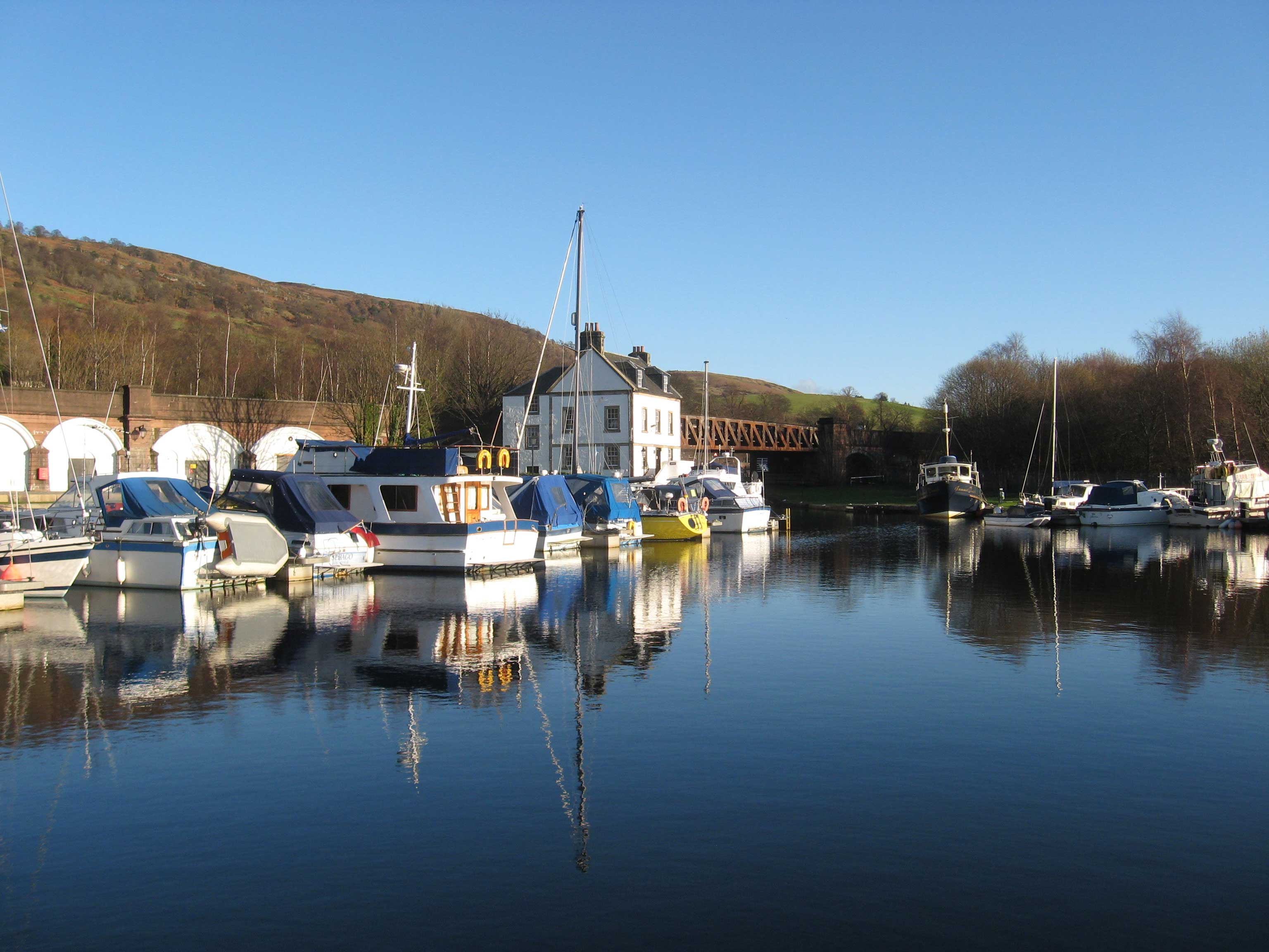 Bowling Basin, on the Forth and Clyde Canal at Bowling, West Dunbartonshire. The railway bridge and arches support the now disused Lanarkshire and Dunbartonshire Railway.